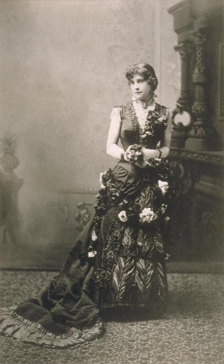 Sarah Althea Hill (1832-1937). Mistress of William Sharon who sued him in 1883 for support under the terms of what she claimed was a marriage contract. While the case was being fought in court, Sharon married her attorney, David S. Terry, who was shot and killed in a battle with the bodyguard of U.S. Supreme Court Justice Stephen Field. Sharon's lawsuit was unsuccessful and she spent 45 years in an insane asylum.